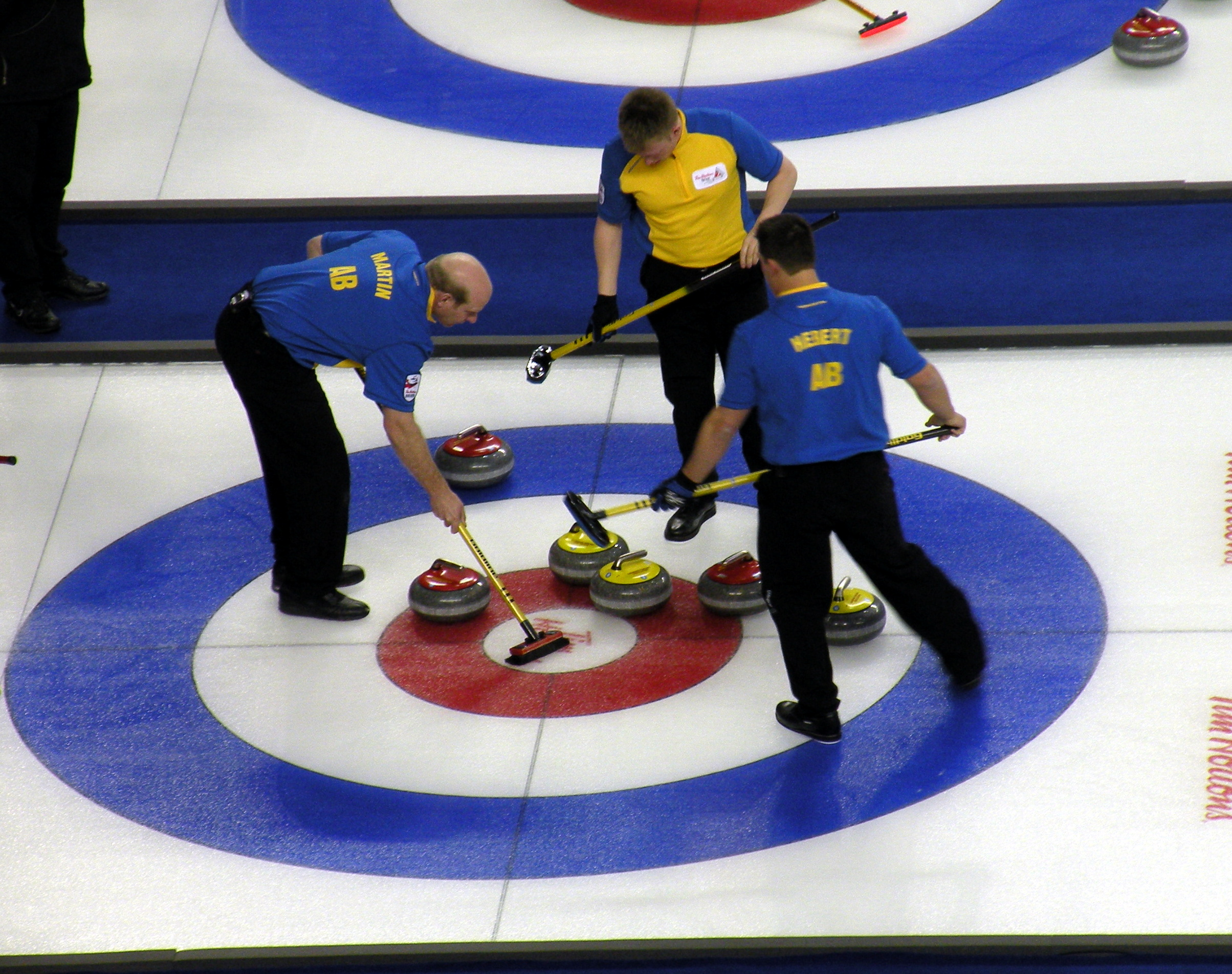 Team Alberta at the 2009 Tim Hortons Brier in Calgary, March 12, 2009